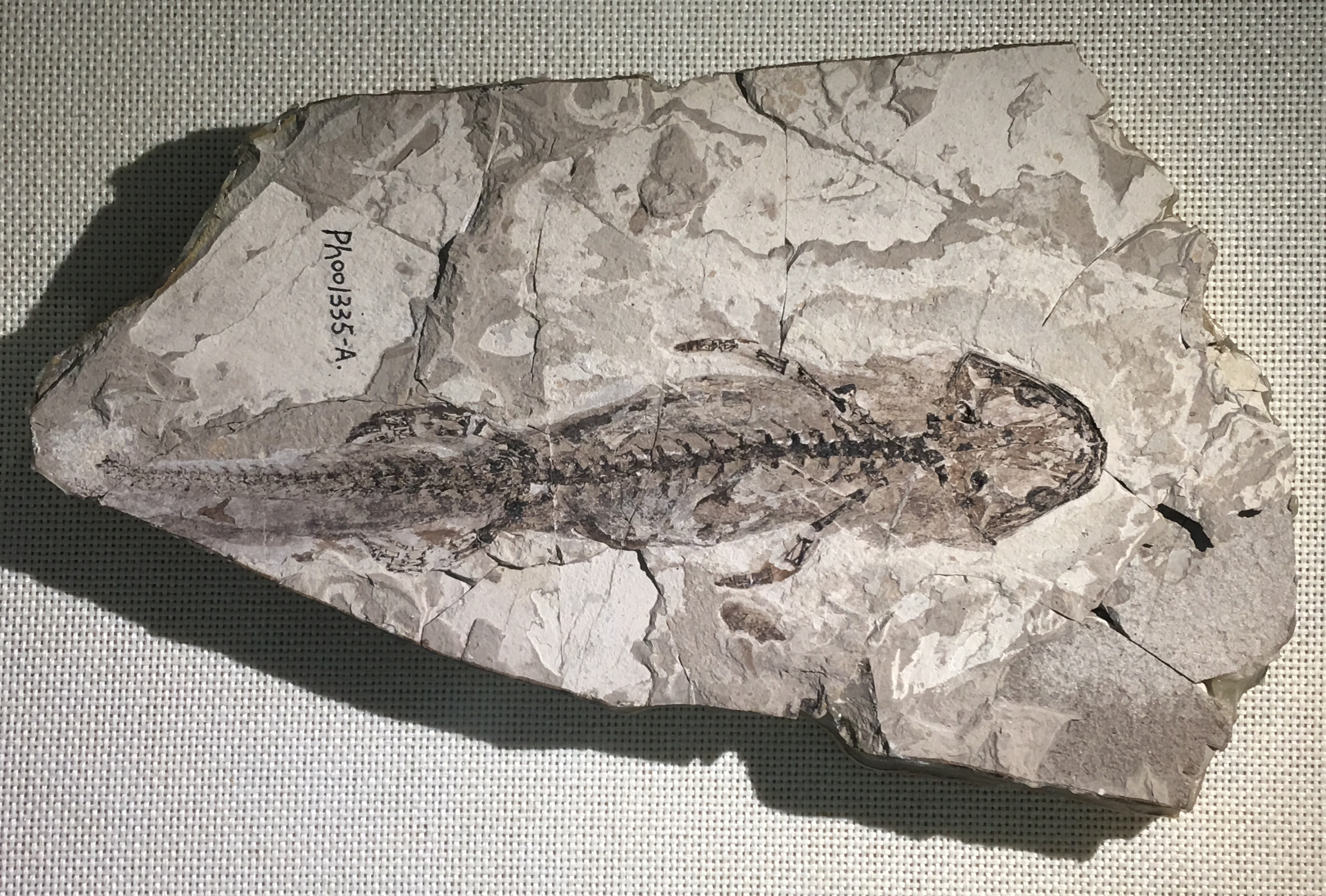 Image of fossil specimen in the Beijing Museum of Natural History, China.